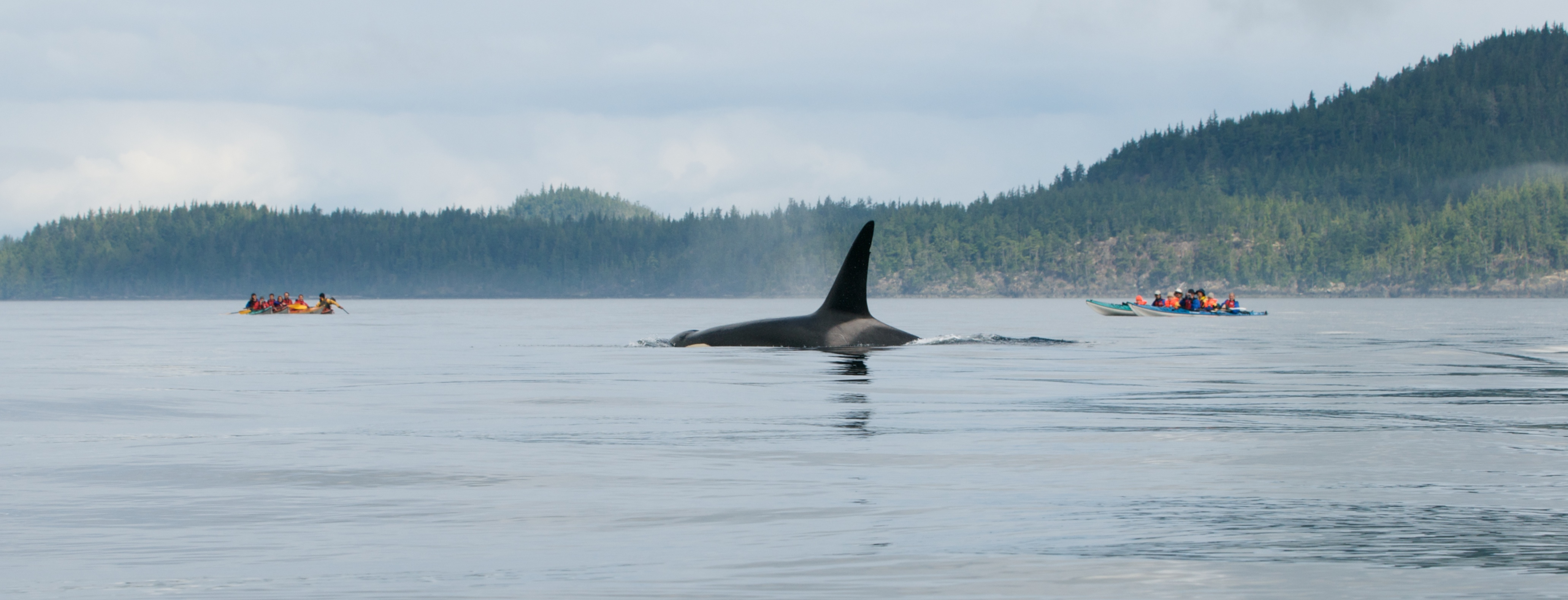 A member of the A36 Matraline in Johnstone Strait - August 2008